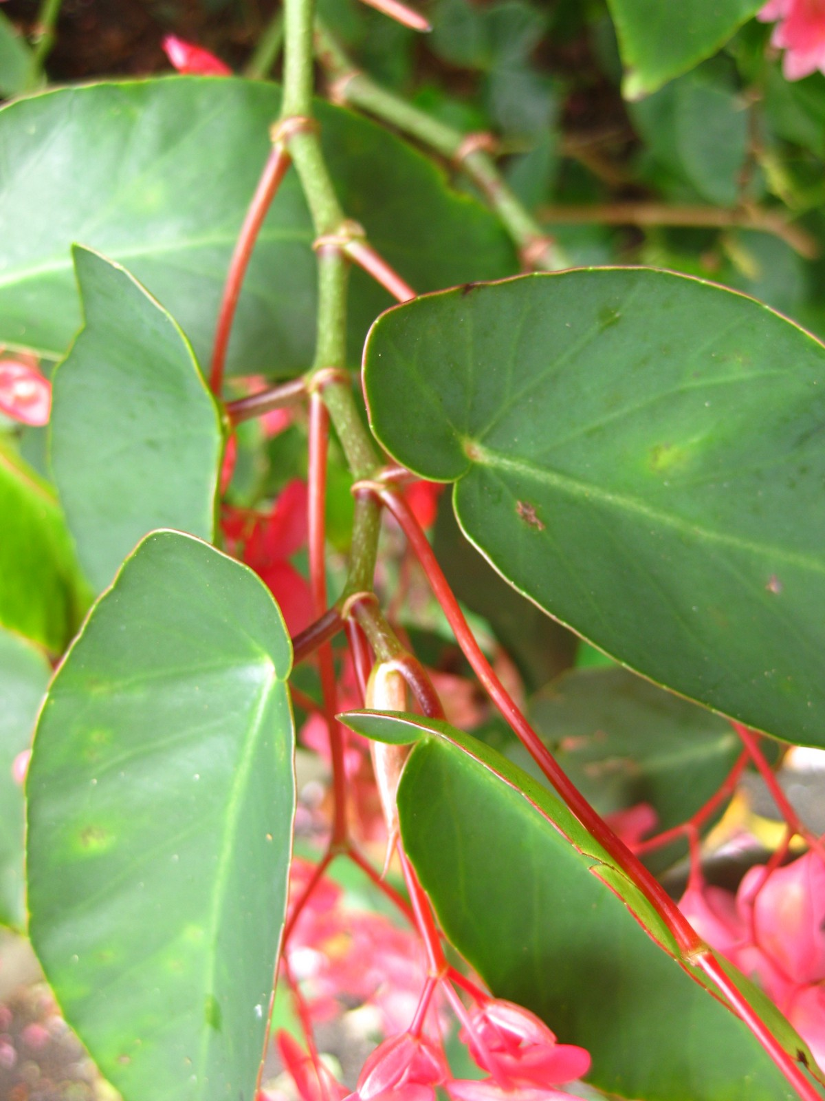 Photographed at the Royal Botanic Gardens Sydney (Australia) in January